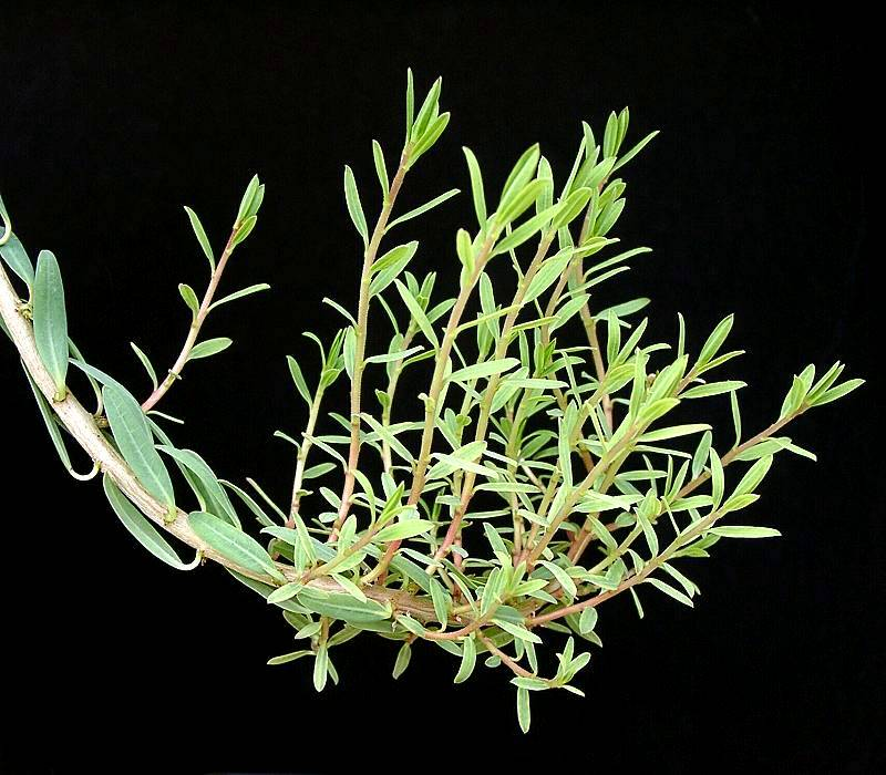 Euphorbia bongensis